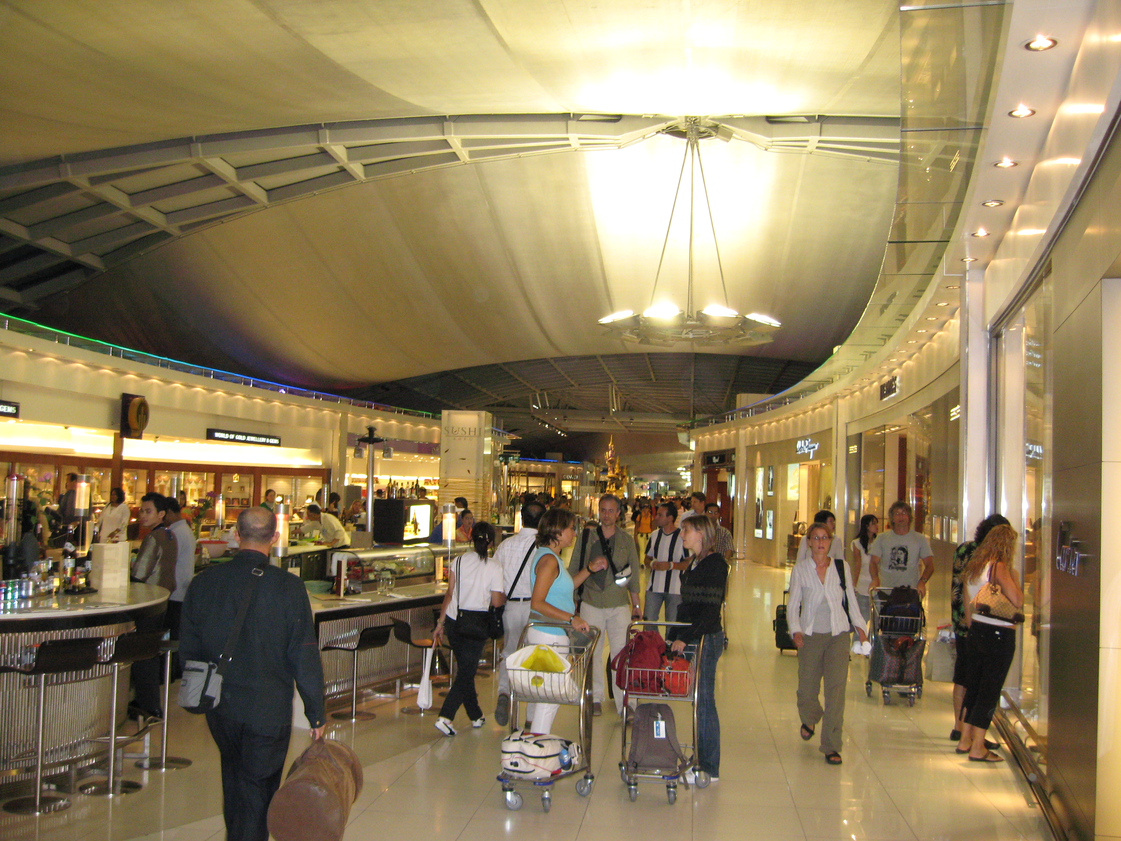 Main shopping area at Suvarnabhumi International Airport, Bangkok, Thailand.